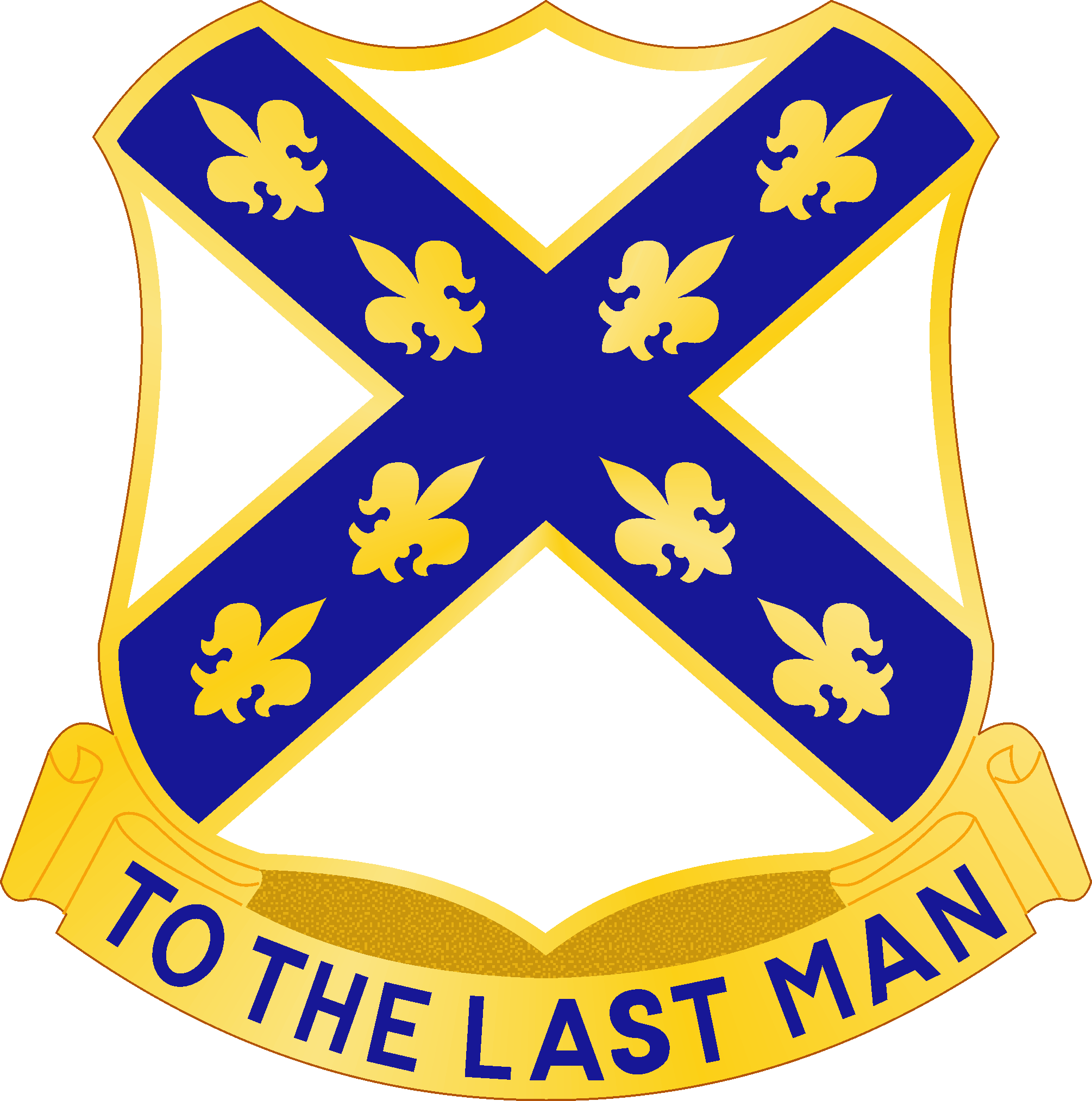 133rd Engineer Battalion Distinctive Unit Insignia, originally 103rd Infantry Regiment DUI